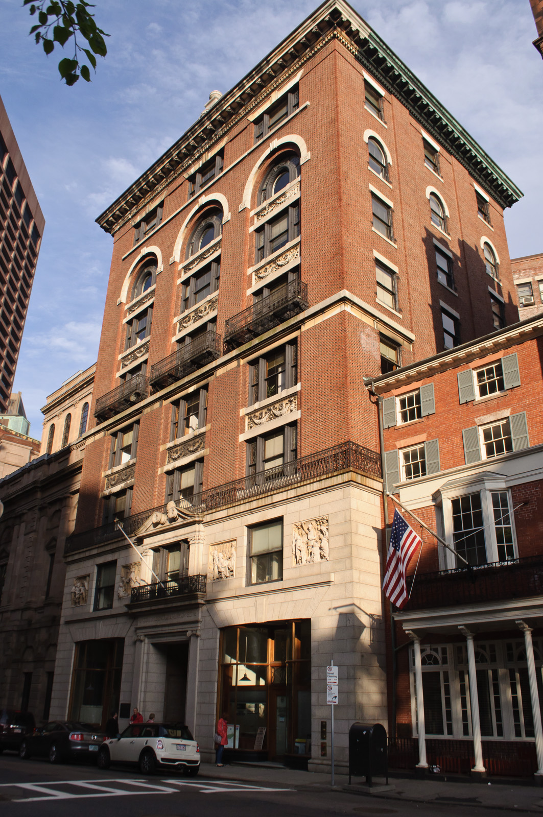 14 Beacon Street, the exterior of which was used as the location for the 1990s drama Ally McBeal. The law firm in the drama, Fish & Cage (later Fish, Cage, & McBeal), was located on the 7th floor of this building. No signs or any other markings identify this building as an Ally McBeal setting, though in real life, the 7th floor is occupied by National Lesbian & Gay Law Association.